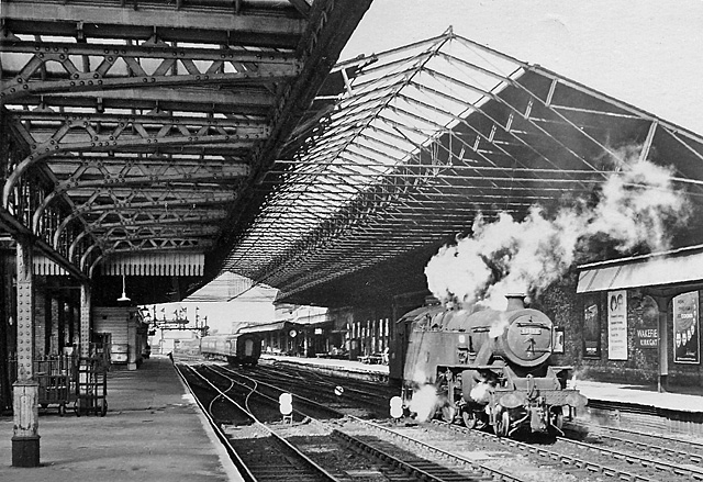 Wakefield Kirkgate Station. View westward, towards Mirfield, Sowerby Bridge and Manchester, or Wakefield Westgate, Leeds and Bradford; ex-Lancashire & Yorkshire Calder Valley main line from Manchester also from Barnsley, eastwards to Normanton also to Goole via Pontefract; the station was also used by some ex-Great Northern trains between Doncaster and Leeds/Bradford. The locomotive is an LMS Fairburn class 4MT 2-6-4T.